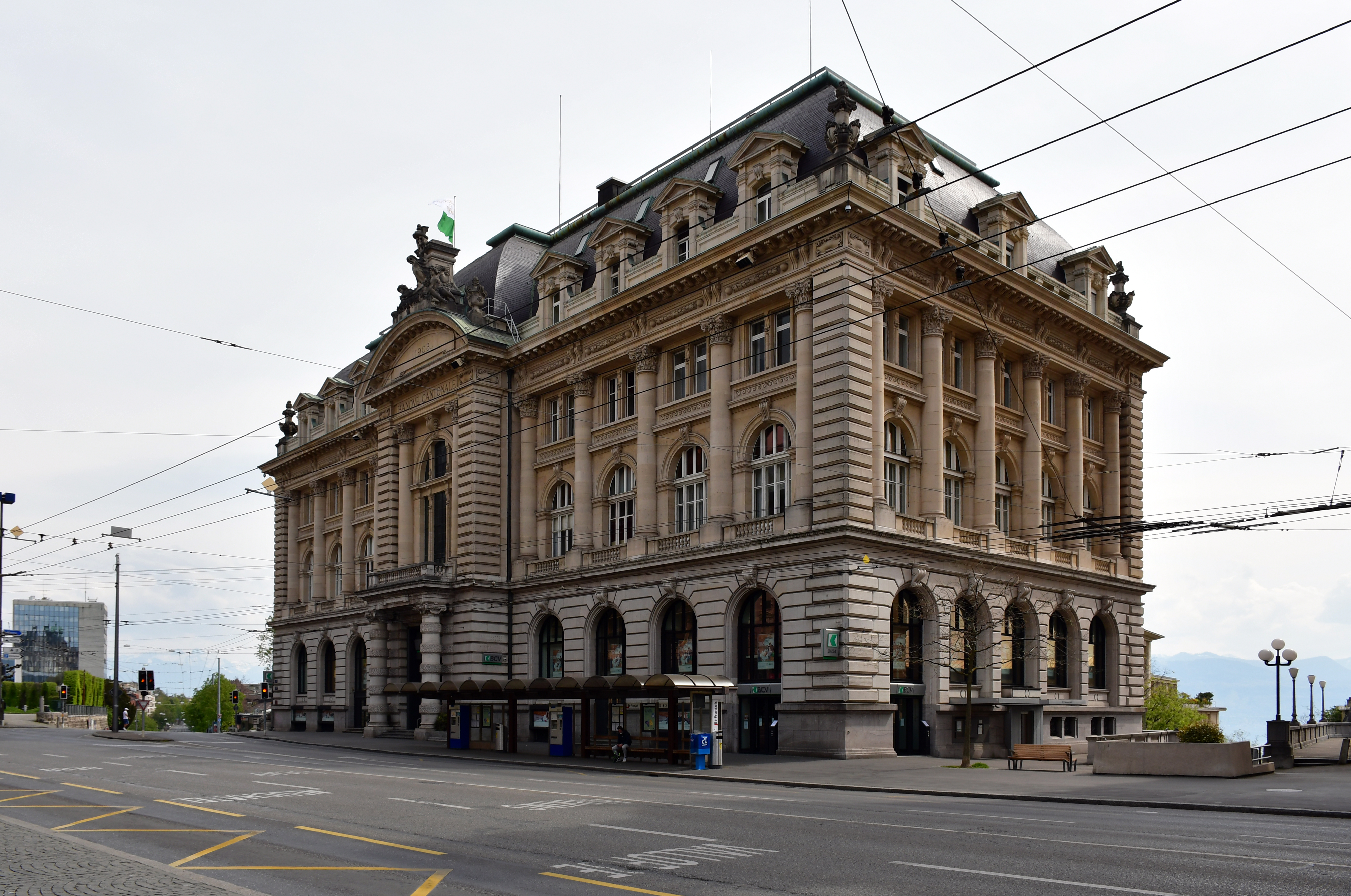 Headquarters of the Banque cantonale vaudoise, located place St-François, in Lausanne (Switzerland).